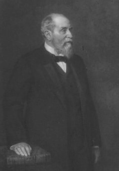 Leopold Oser (1839–1910); portrait painting by Leopold Horowitz and photogravure by Josef Löwy. Information about the portrait and the artists: Bildarchiv of the Austrian National Library: [1] and [2]